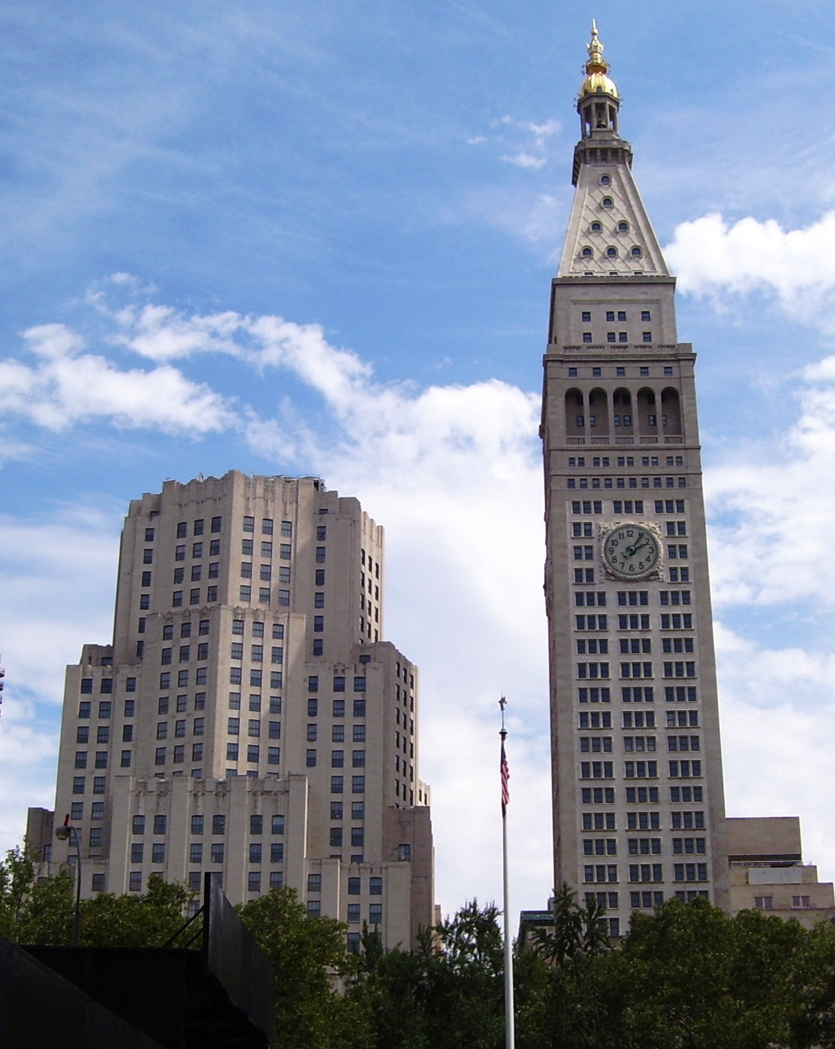 The Metropolitan Life Insurance Company Tower (right) and North Building (left) as seen from West 24th Street just off of Fifth Avenue, Manhattan, New York City